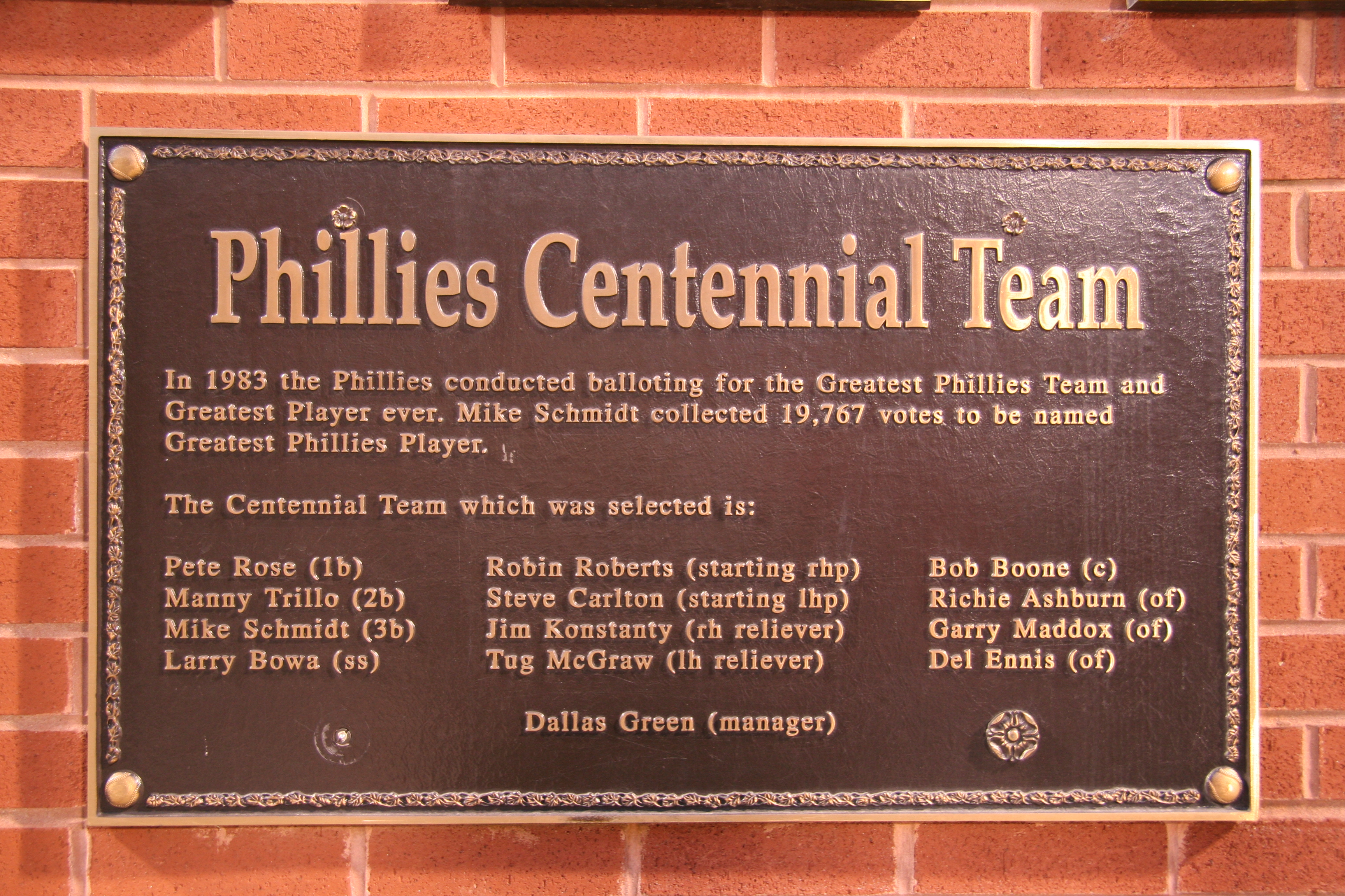 Plaque honoring the Centennial Team on the Philadelphia Baseball Wall of Fame at Citizens Bank Park